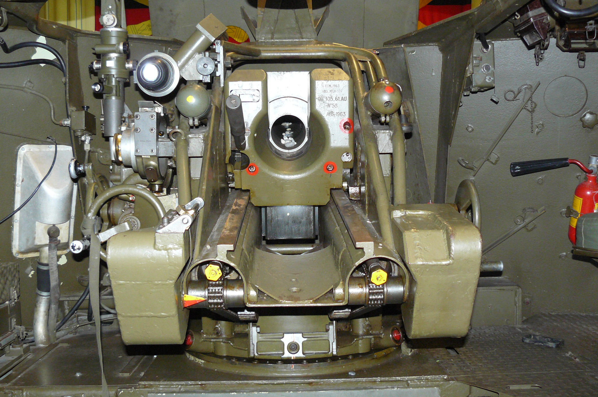 Inside view of the AMX 105mm Self-propelled Howitzer as seen in the Nederlands Artillerie Museum, 't Harde, The Netherlands